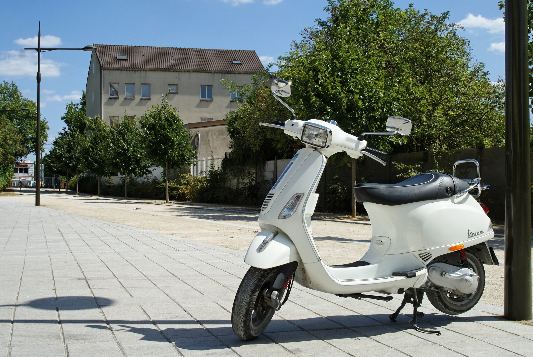 Scooter tout propre